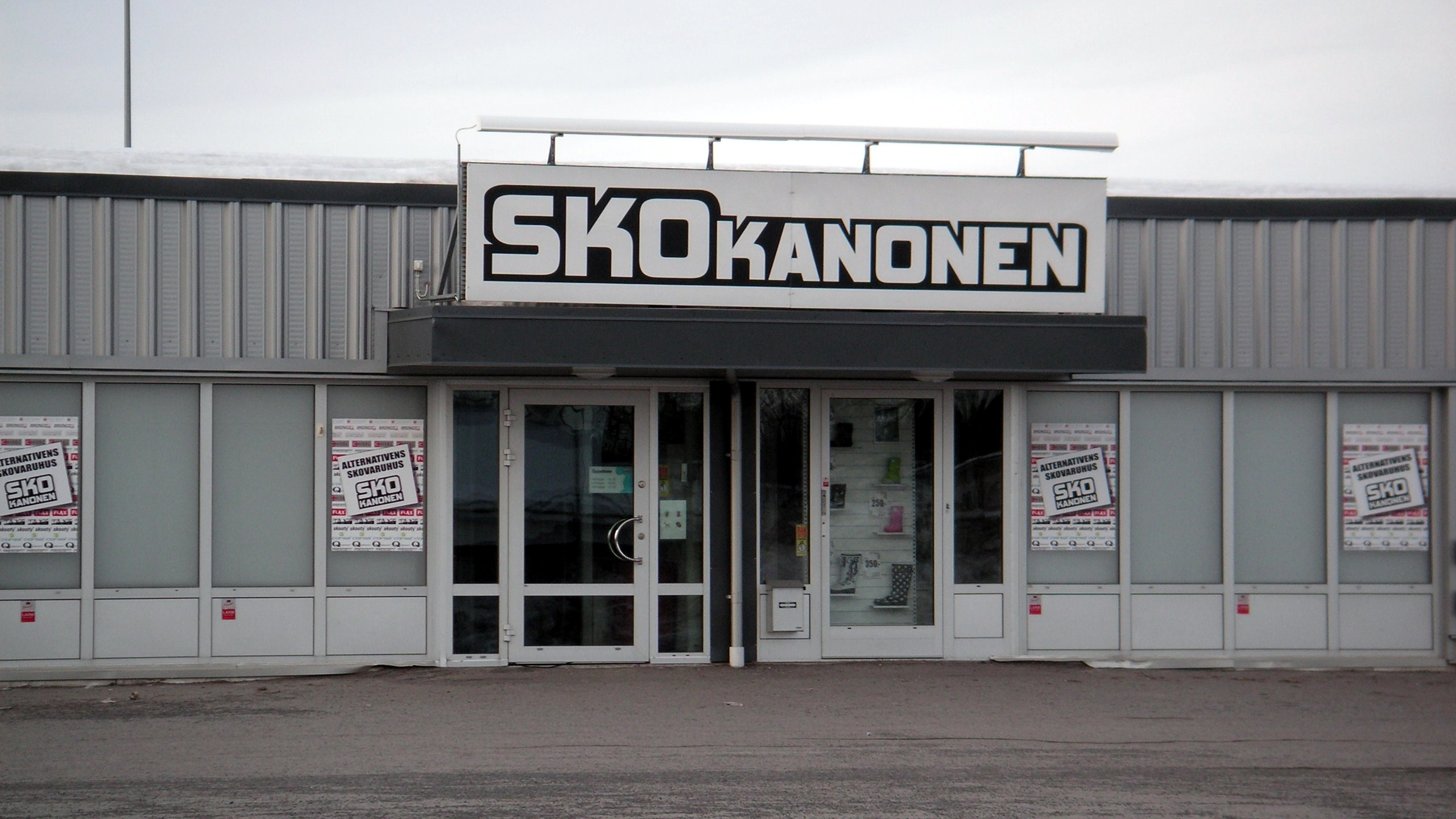 Shoe store "Skokanonen" in Umeå, Sweden.